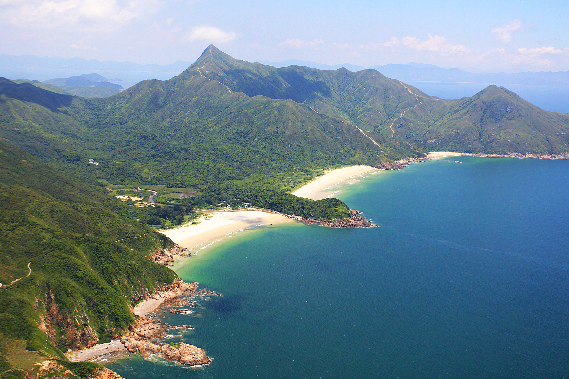 Tai Long Wan with its lucid water and silvery sand, has ranked top of the “Hong Kong Best Ten Scenic Sites” among visitors.